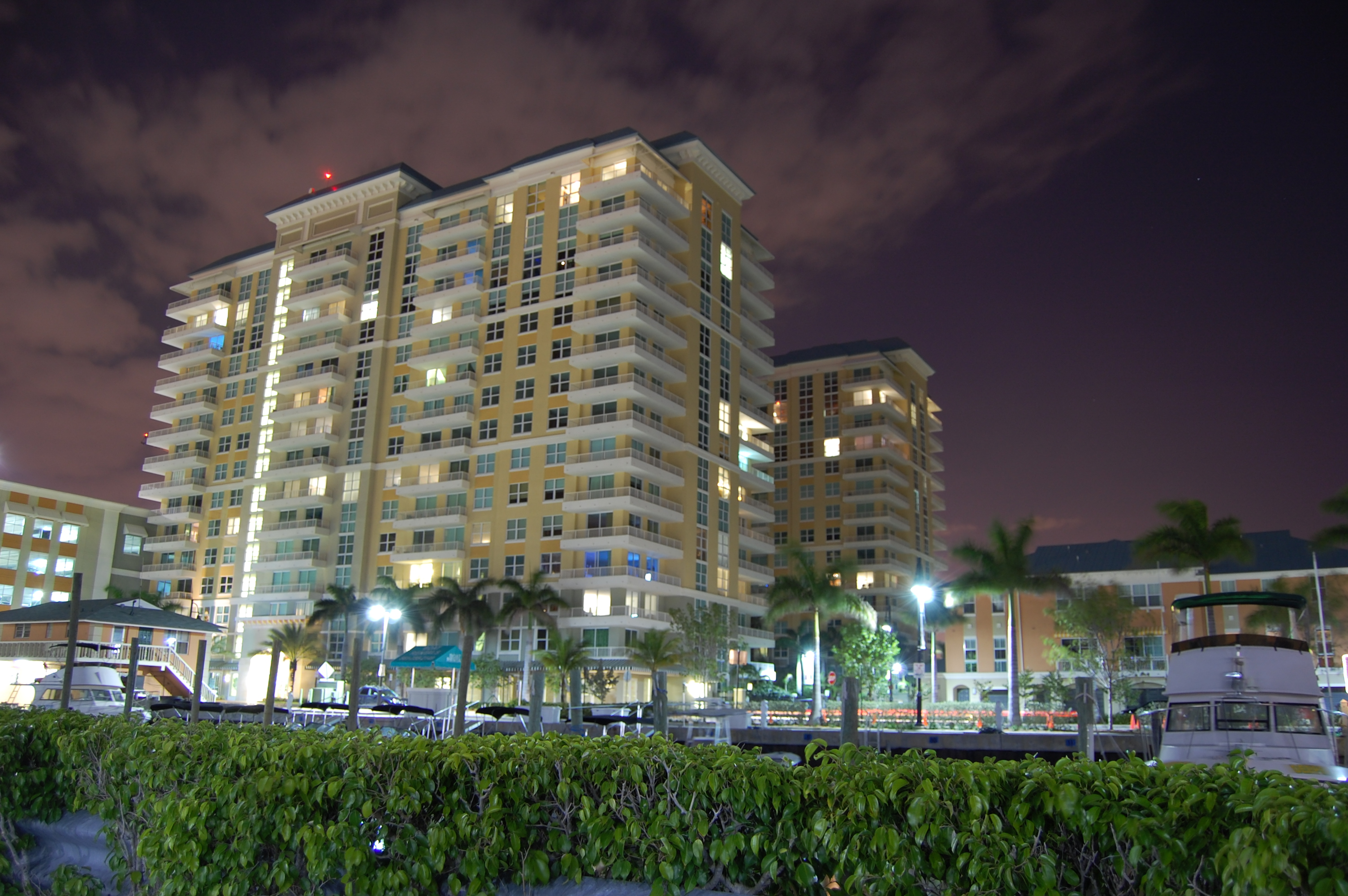 Photograph of the Marina Village complex in Boynton Beach, Florida.